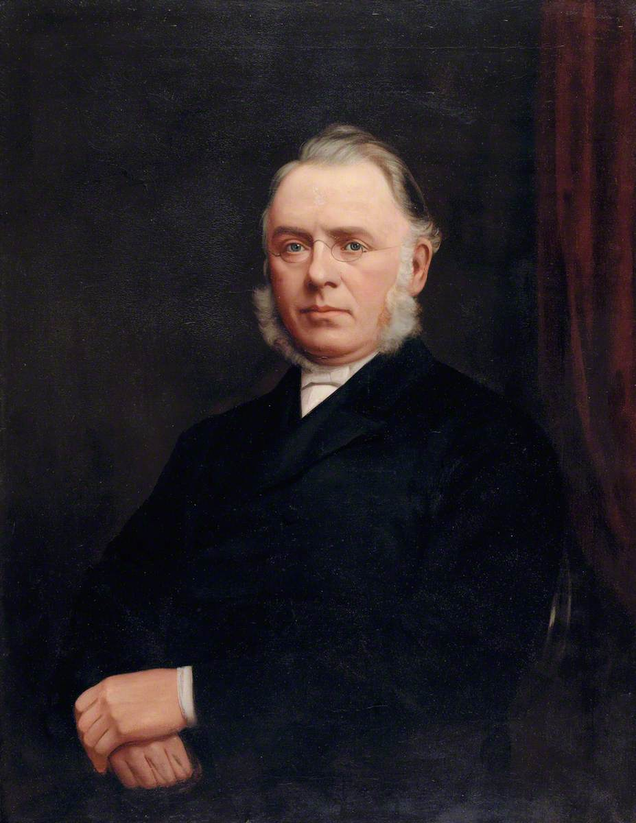 A painting from the Framed Works of Art collection at the National Library of wales.